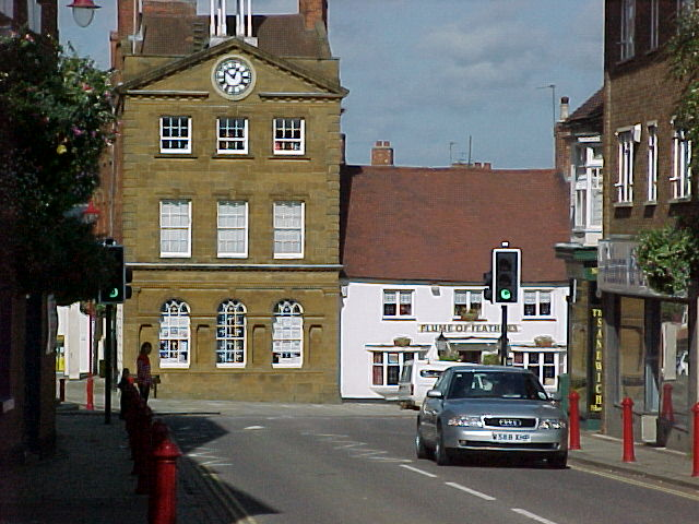 The Moot Hall, Daventry, once a museum, now it is an Indian Restaurant.